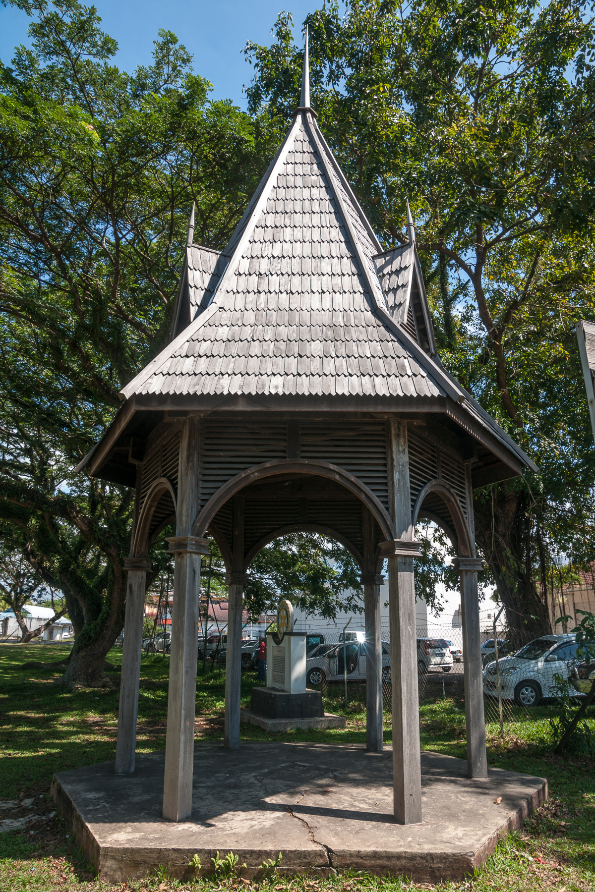 The historic belfry of Tawau, Sabah, Malaysia; it's the last historic pre-war building of Tawau